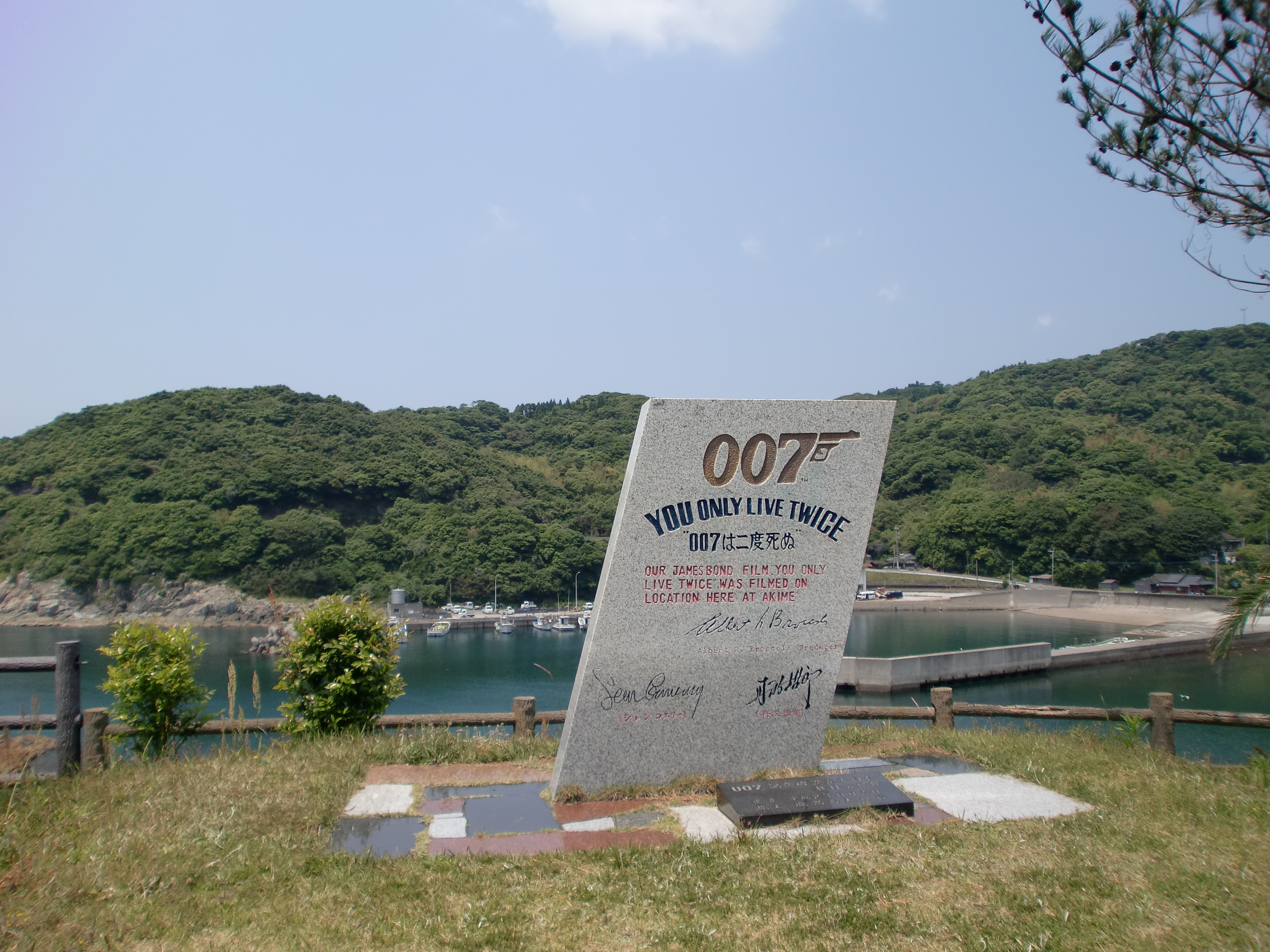 Stone monument indicating the shooting location of You Only Live Twice, on the shore in Akime, Minamisatsuma, Kagoshima